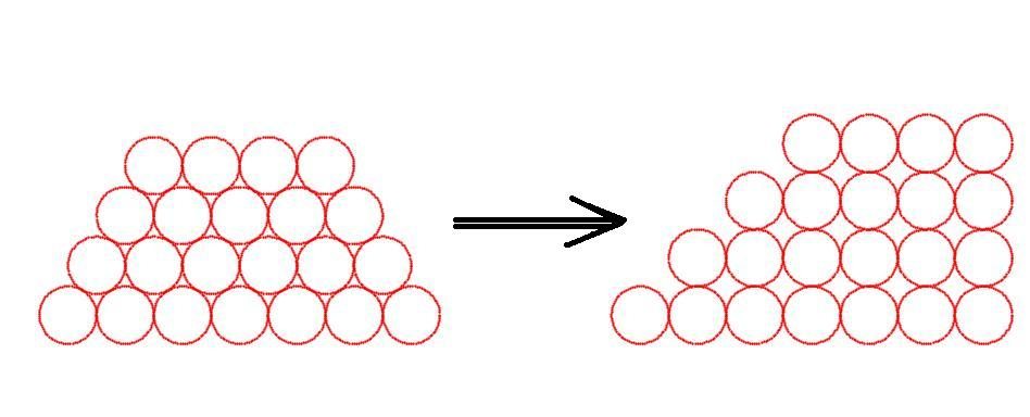 Redrawn version of a drawing originally from the textbook on soil mechanics by Arnold Verruijt